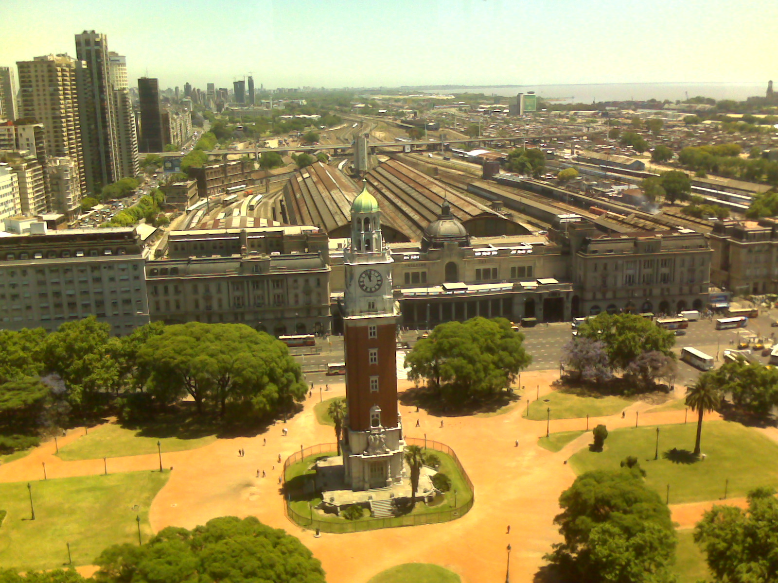 Torre Monumental (Ex-Torre de los Ingleses) and Retiro Railway Station, Buenos Aires.